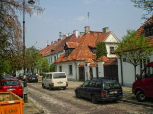 Żoliborz Urzędniczy